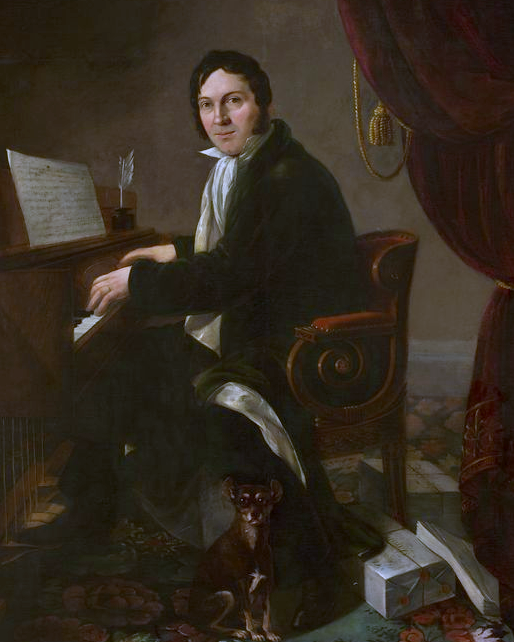 Karol Kurpiński